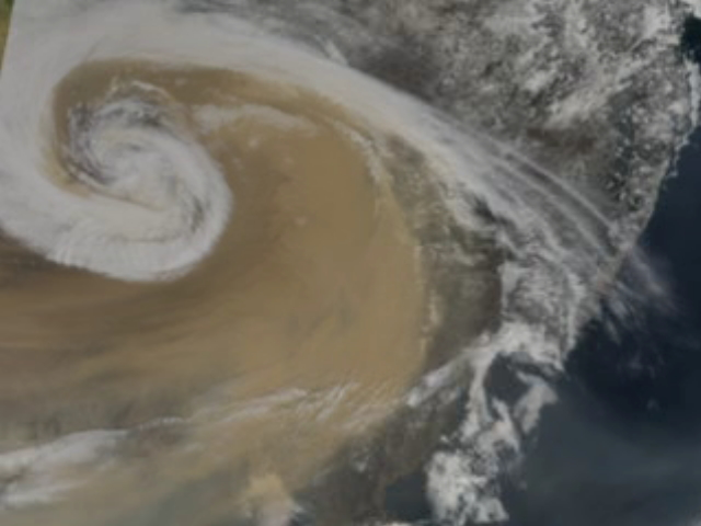 Particles from airborne pollution, such as the “Giant Brown Cloud,” can travel all around the globe. In April of 2001, NASA satellites saw a massive dust storm appear over China. The densest portion of the aerosol pollution traveled east over Japan, the Pacific Ocean, and, within a week, the United States. Credit NASA.